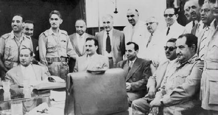 Leaders of the July 14, 1958 revolution in Iraq, including Abd as-Salam Arif (back row, left), Khaled al-Naqshabendi (front row, second from left), Abd al-Karim Qasim (back row, third from left) and Muhammad Najib ar-Ruba'i (back row, fifth from left). Also included is Michel Aflaq (sitting in front row). The person between Aflaq and Naqshbandi is possibly Baba Ali al-Barzanji (front row).